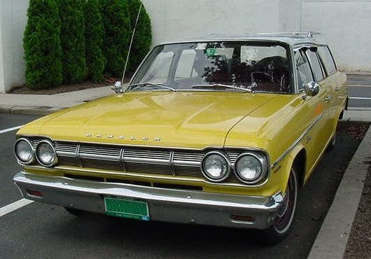 1965 Rambler Classic station wagon (finished in yellow with white top) built by American Motors Corporation (AMC). Picture taken at the 2003 AMCRC car show that was held in Somerset, New Jersey.